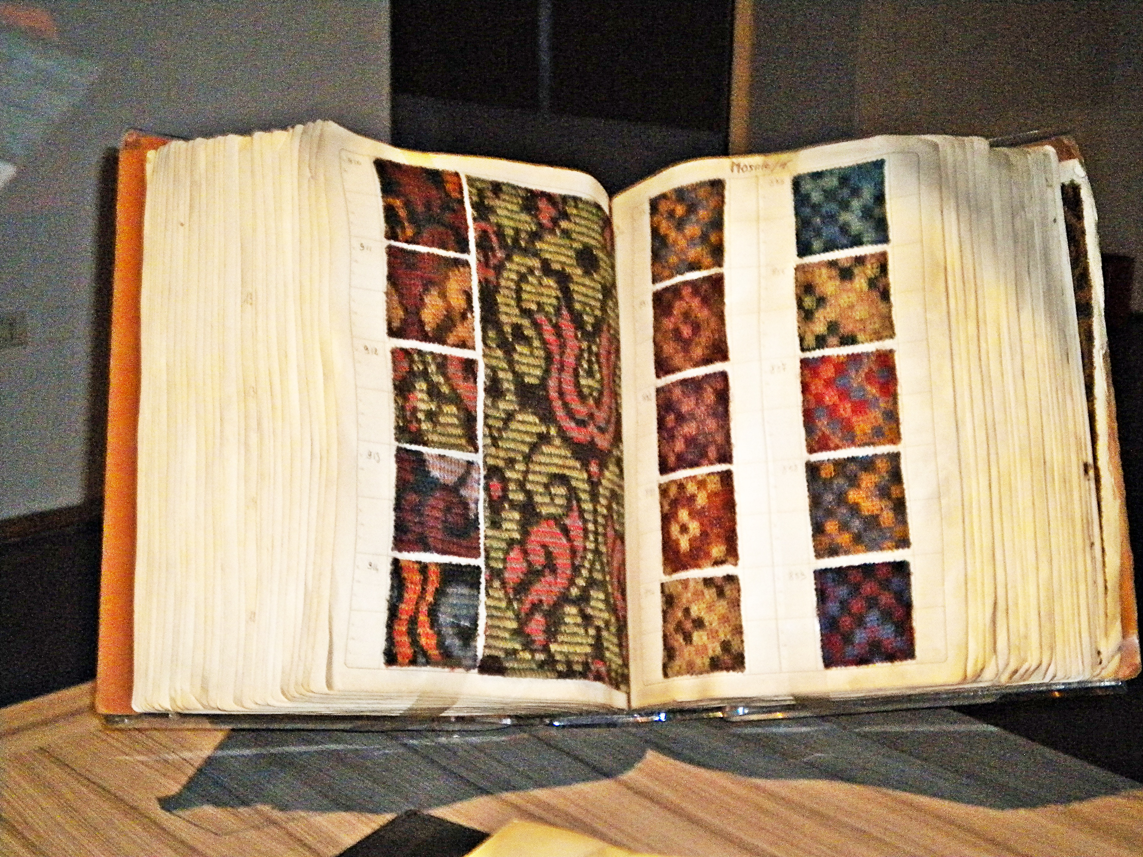 different fabrics